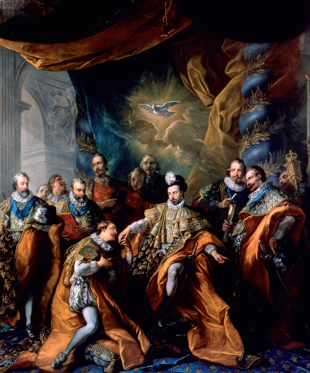 The Knights of the Order of the Holy Spirit and their Grand Master Henri III of France